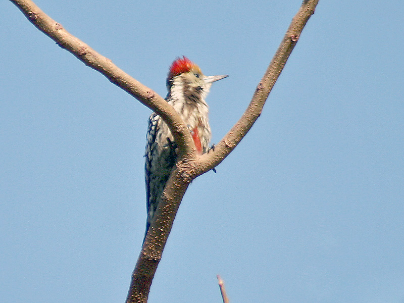 Yellow-crowned Woodpecker Dendrocopos mahrattensis at Hodal in Faridabad District of Haryana, India.